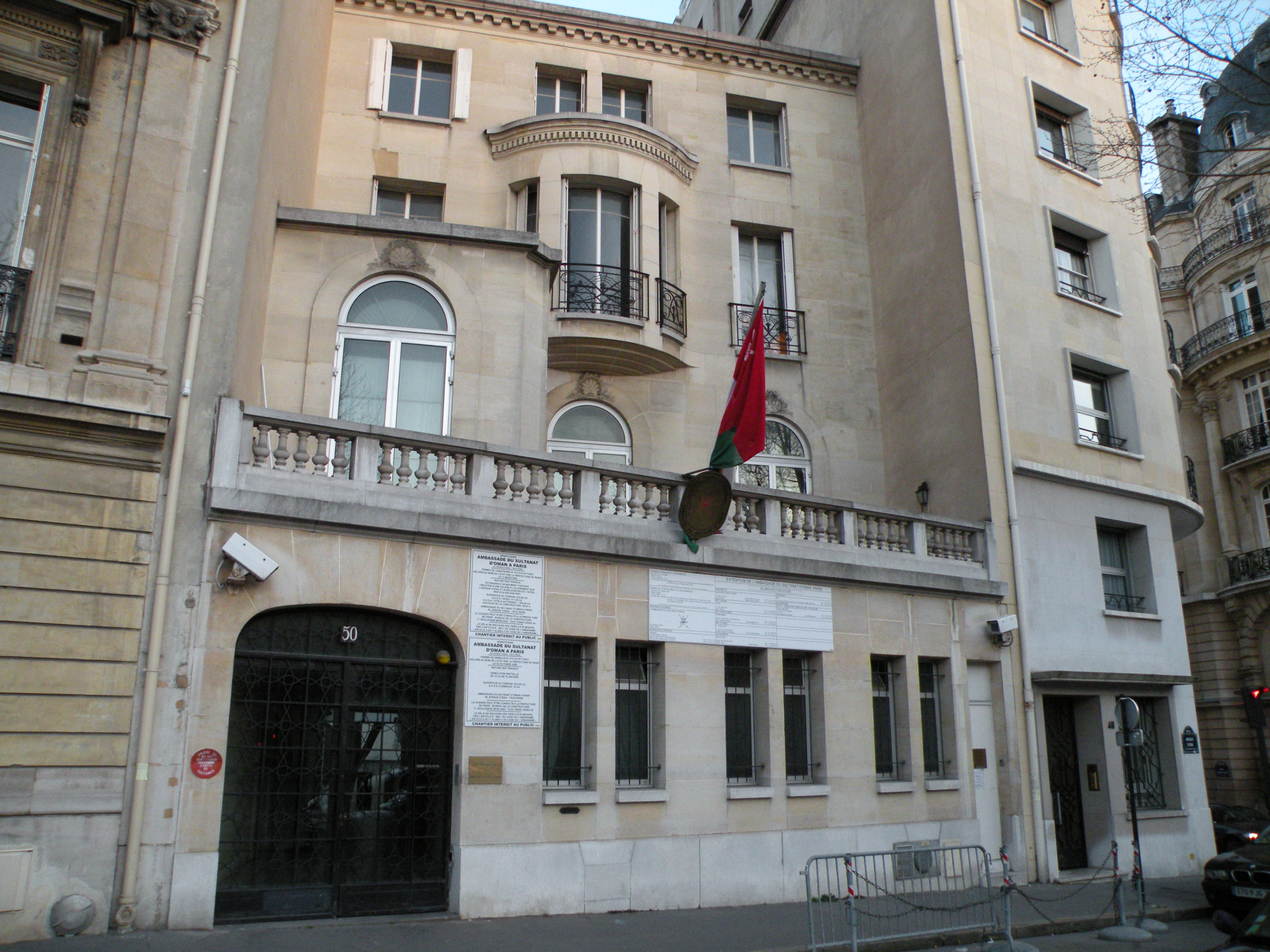 Omani embassy in France, Paris